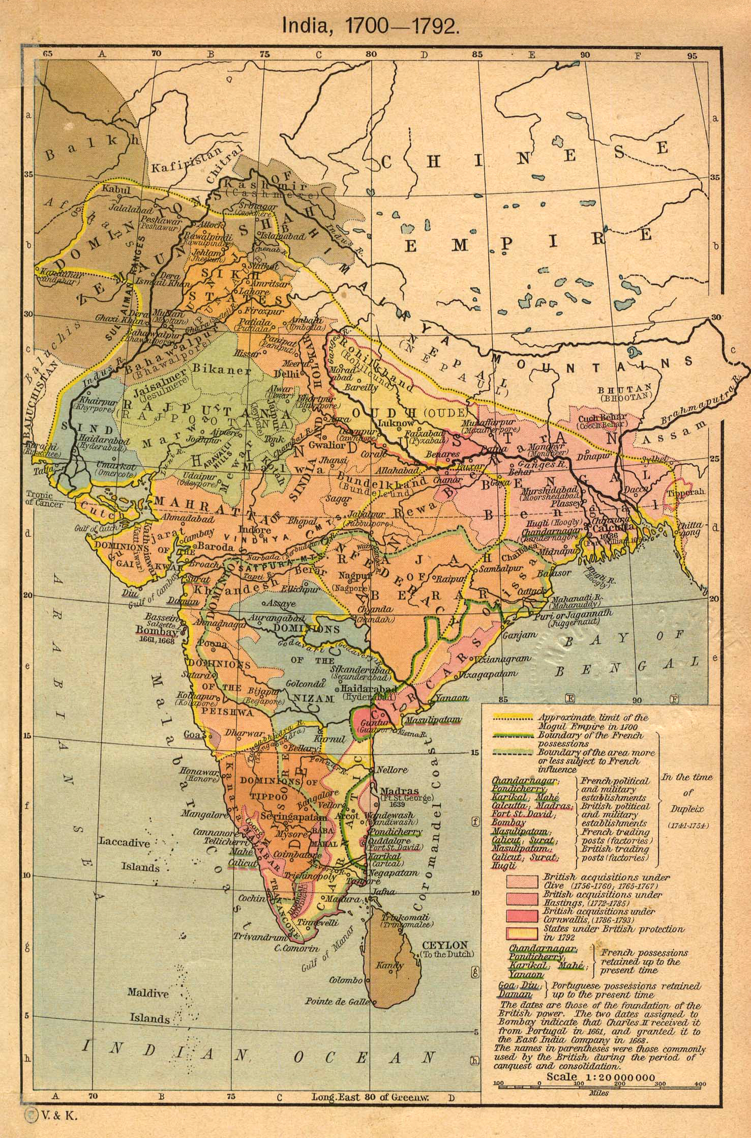 Map of India 1700-1792